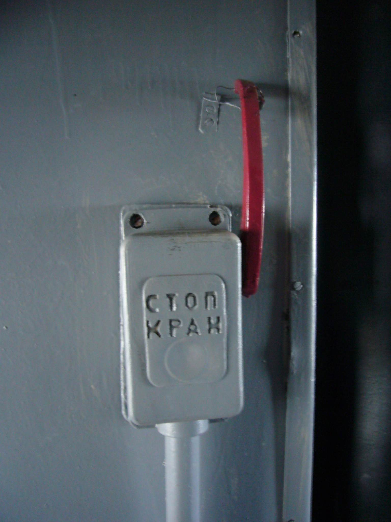 Emergency brake in railway car, Moscow-Krivyi Rig, Ukraine